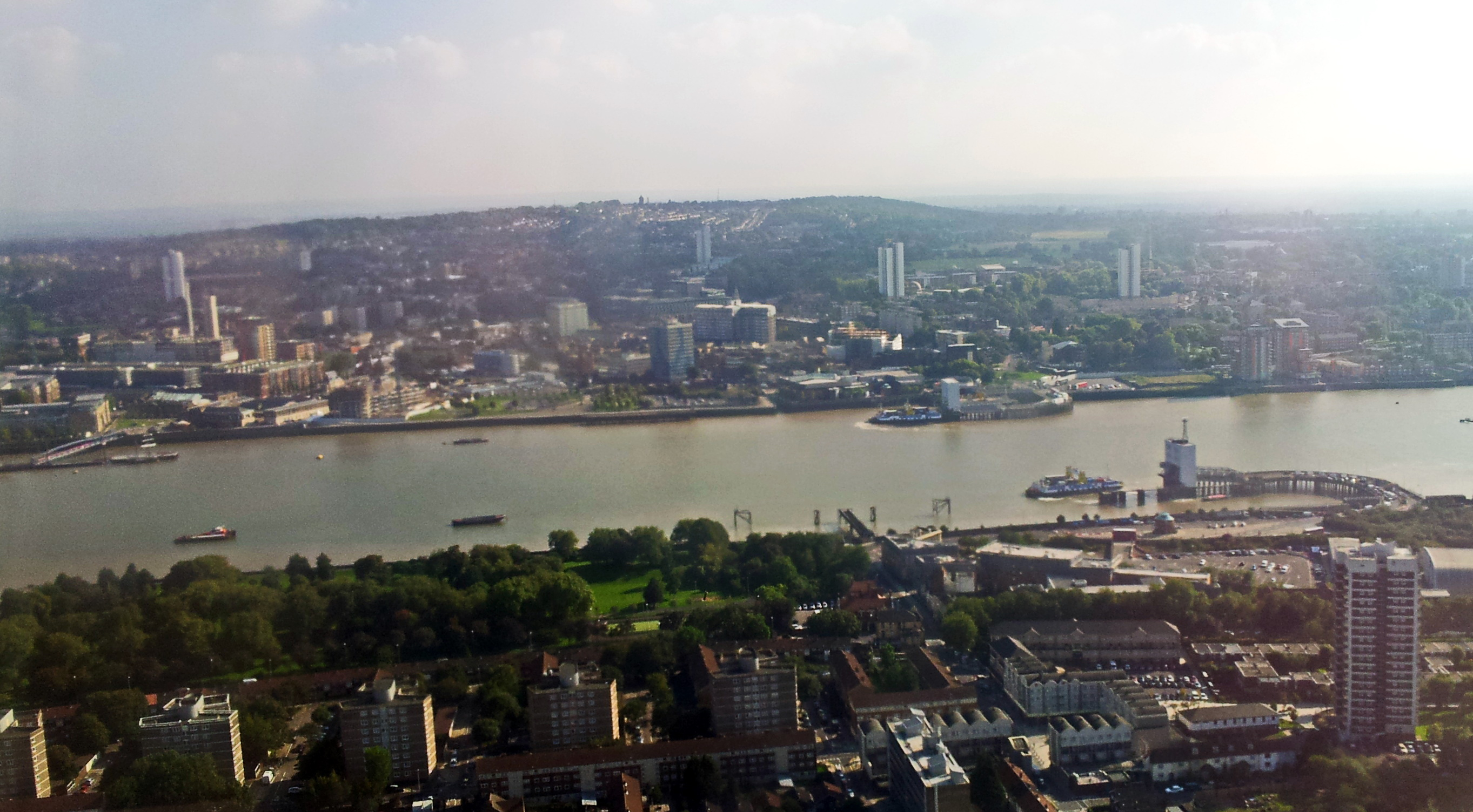 View of South East London from a small AVRO airplane shortly after departure from London City Airport. Clearly visible are the river Thames and the jetties of the Woolwich Ferry. In the centre is Woolwich with Shooter's Hill in the background. Towards the left: Royal Arsenal.